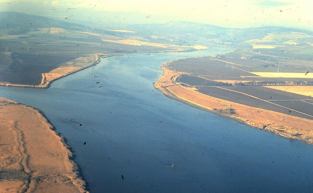 River Tay